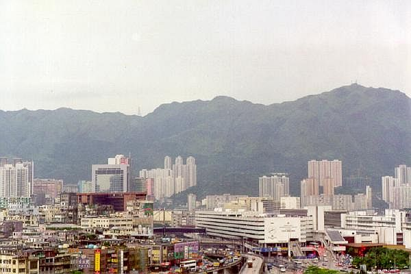 Kai Tak Airport, 2 July 1998